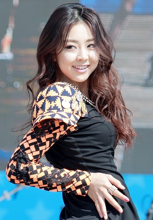 Rise Kwon in Incheon Festival Ara on May 13, 2013.